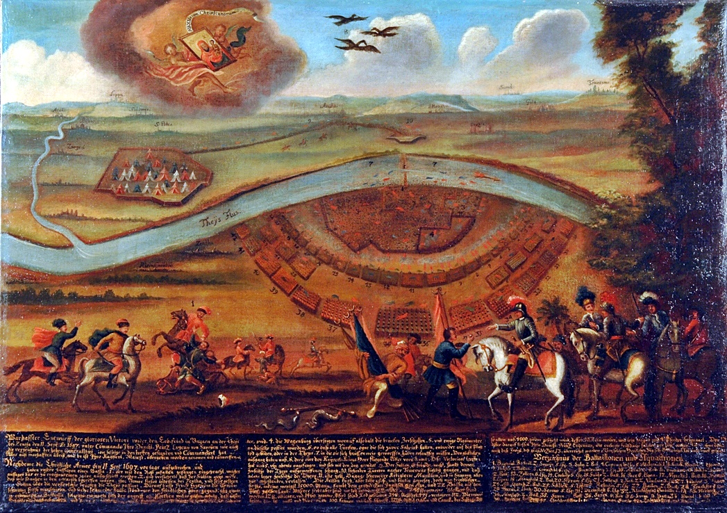 Schlacht bei Zenta, 1697, darüber die Madonna von Pötsch (Gnadenbild aus dem Stephansdom)